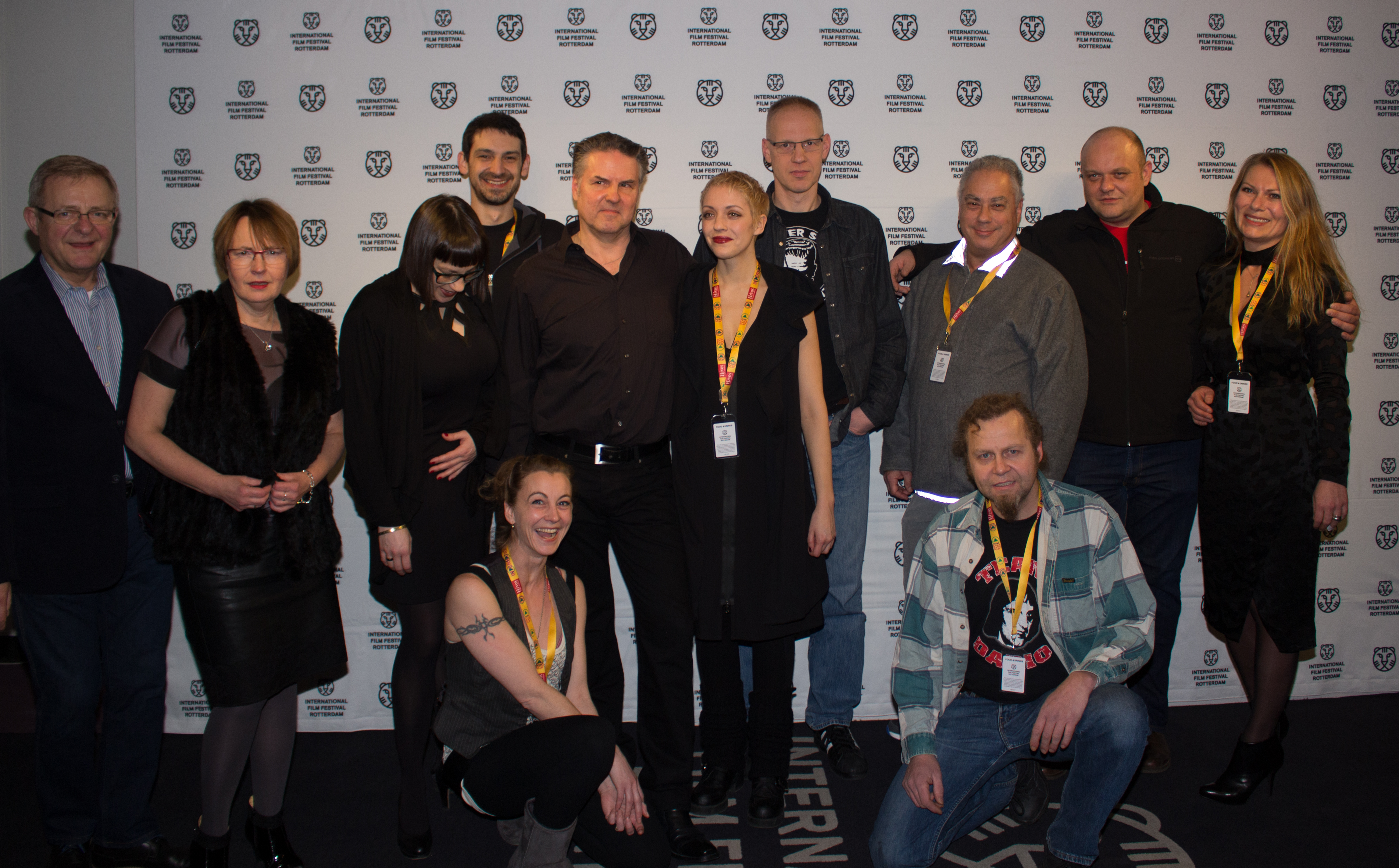 German Angst cast & crew (and friends) Directors Jörg Buttgereit, Michal Kosakowski, Andreas Marschall Production country & year Germany - 2015 Length 110 min Premiere World premiere Producer Michal Kosakowski, Andrea Staerke Screen play Anna Bonasso, Jörg Buttgereit, Andreas Marschall, Goran Mimica With Milton Welsh, Daniel Faust, Denis Lyons, Annika Strauss, Matthan Harris, Andreas Pape, Desiree Giorgetti Camera Sven Jakob Editor Michal Kosakowski, Andreas Marschall Production design Jörg Möhring Sound design Dieter Hebben, Lukas Lücke Medium DCP Website